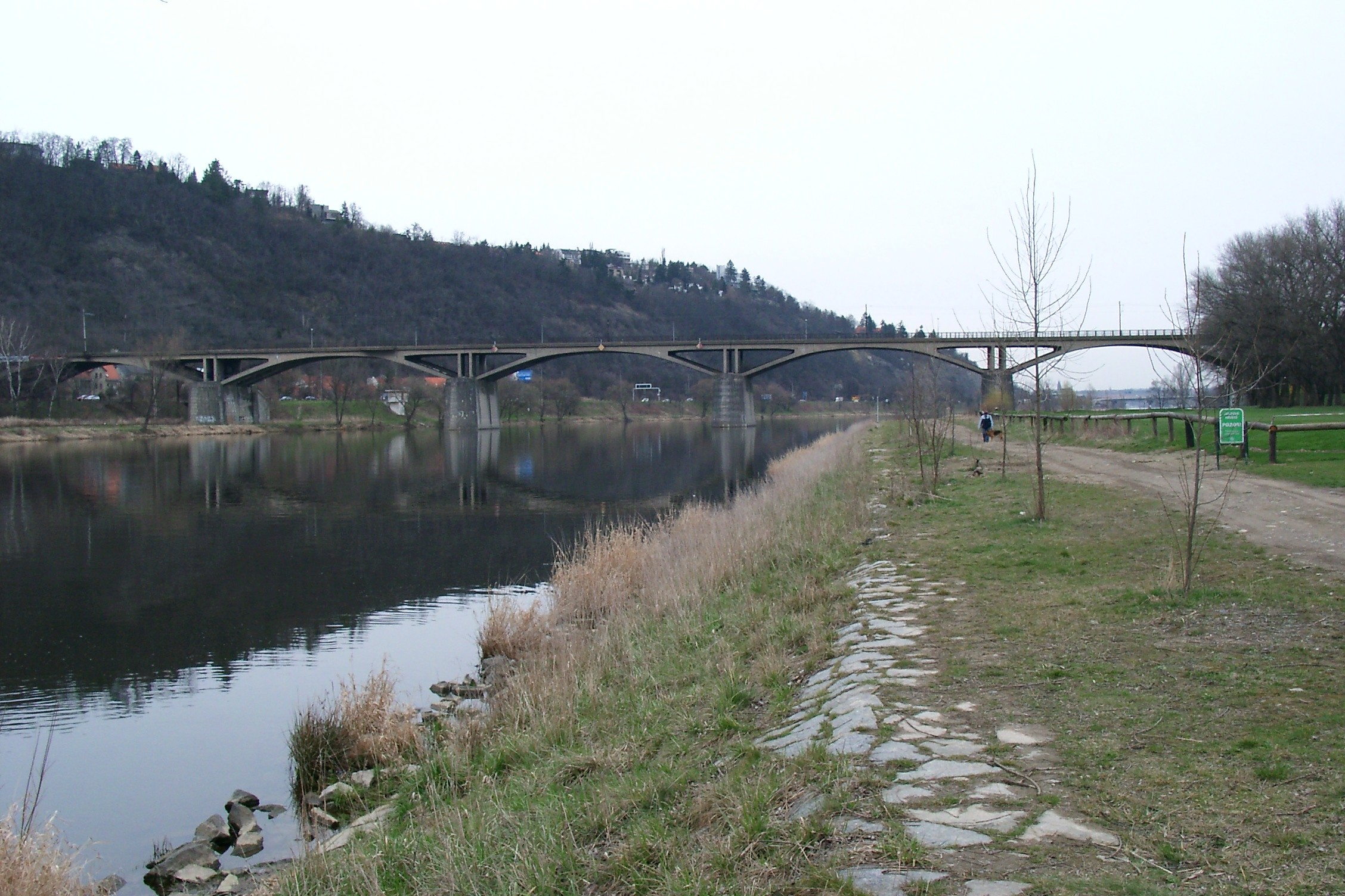 Prague, Branický most, from the south